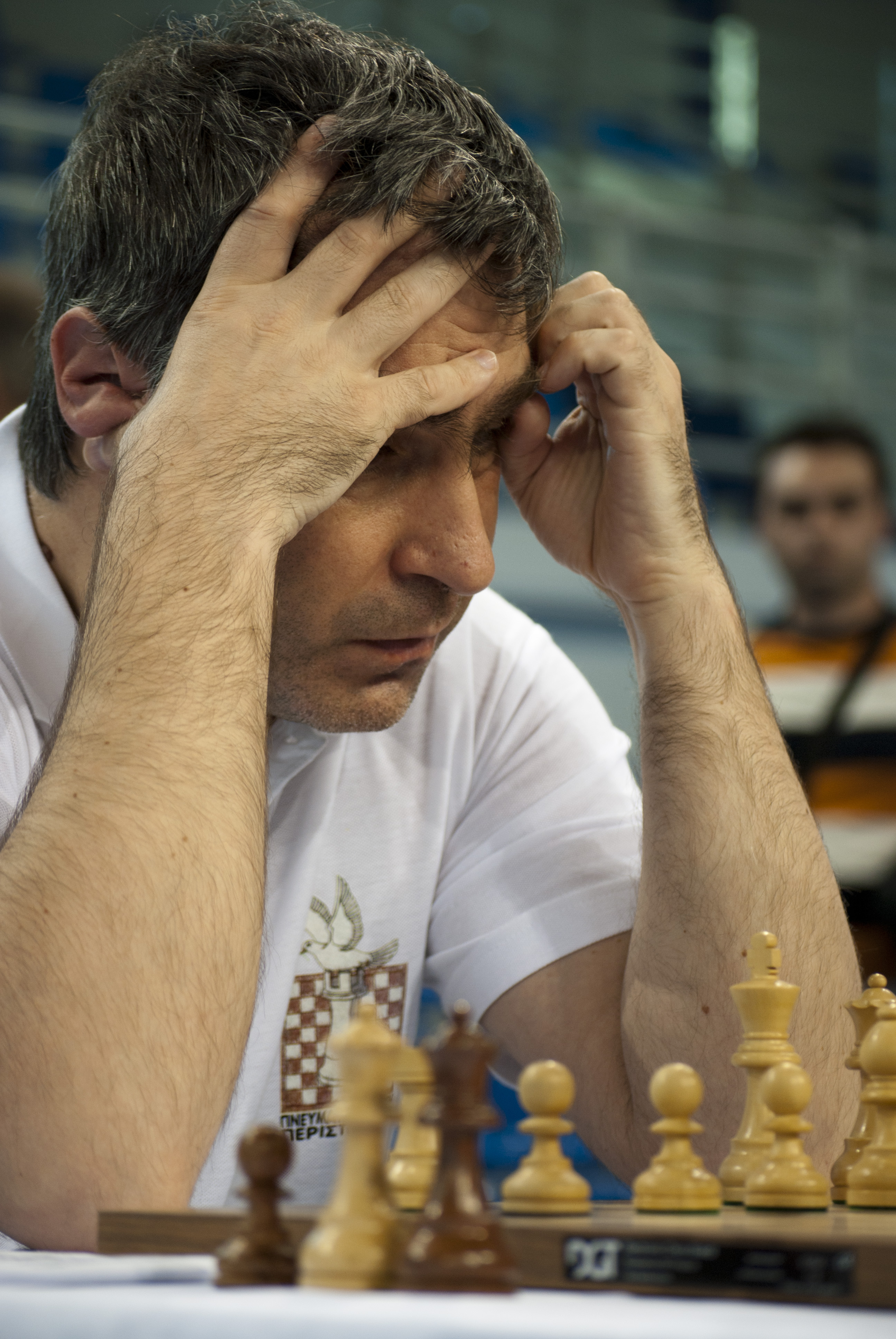 GM Vassily Ivanchuk